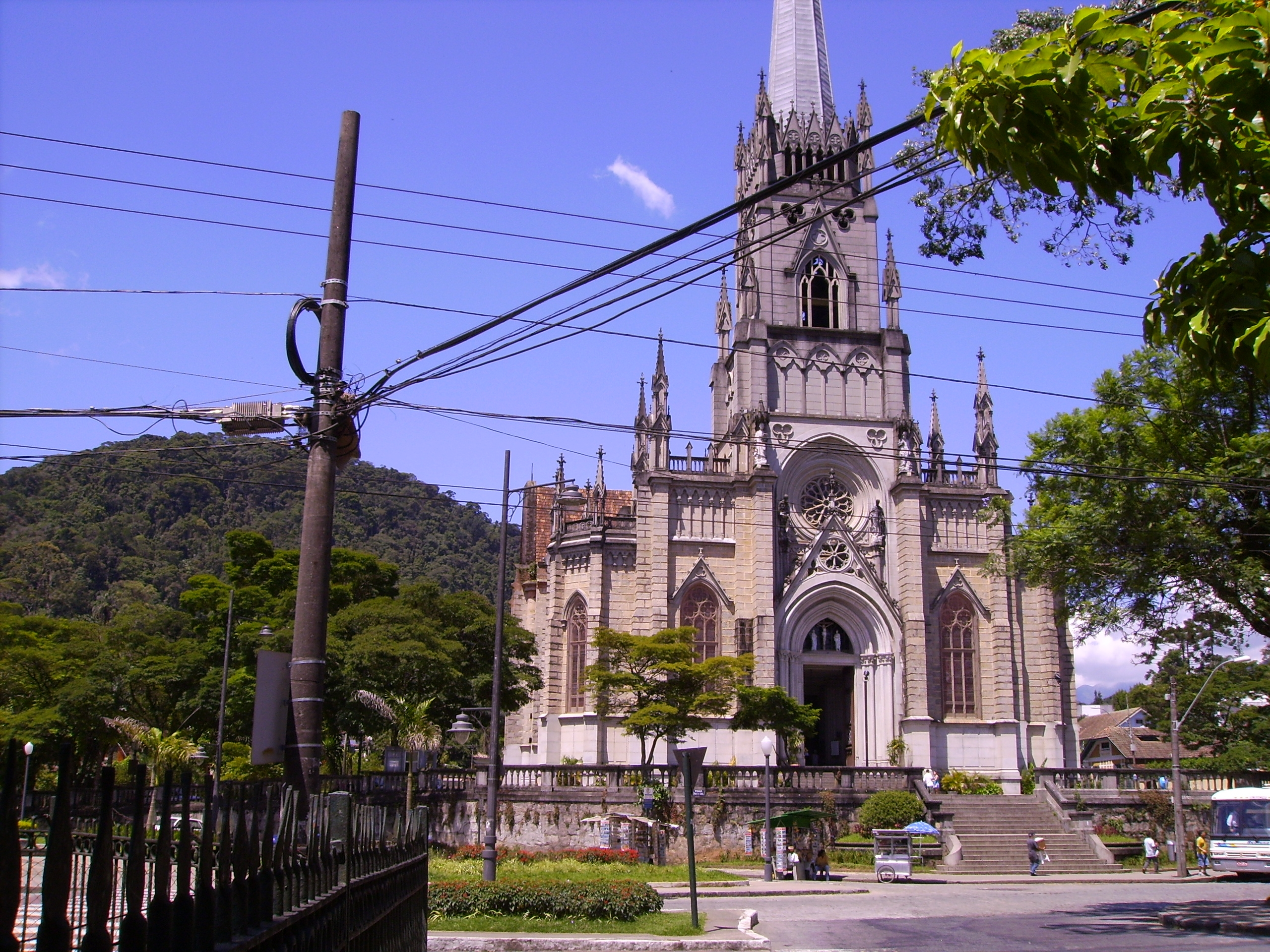 front picture of the cathedral in Petropolis, state of Rio de Janeiro, Brazil